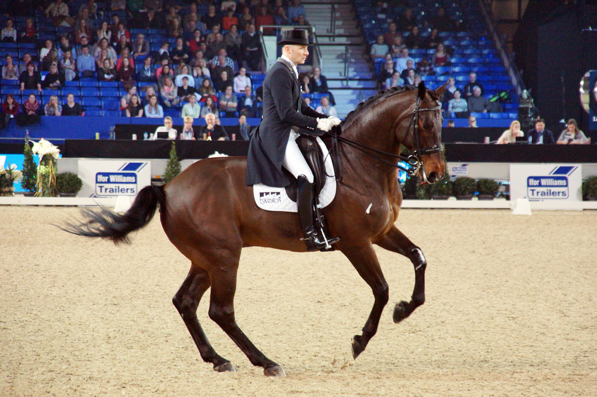 Jeroen Devroe with Eres DL at the Grand Prix Freestyle, CDI 5* Jumping Mechelen 2015